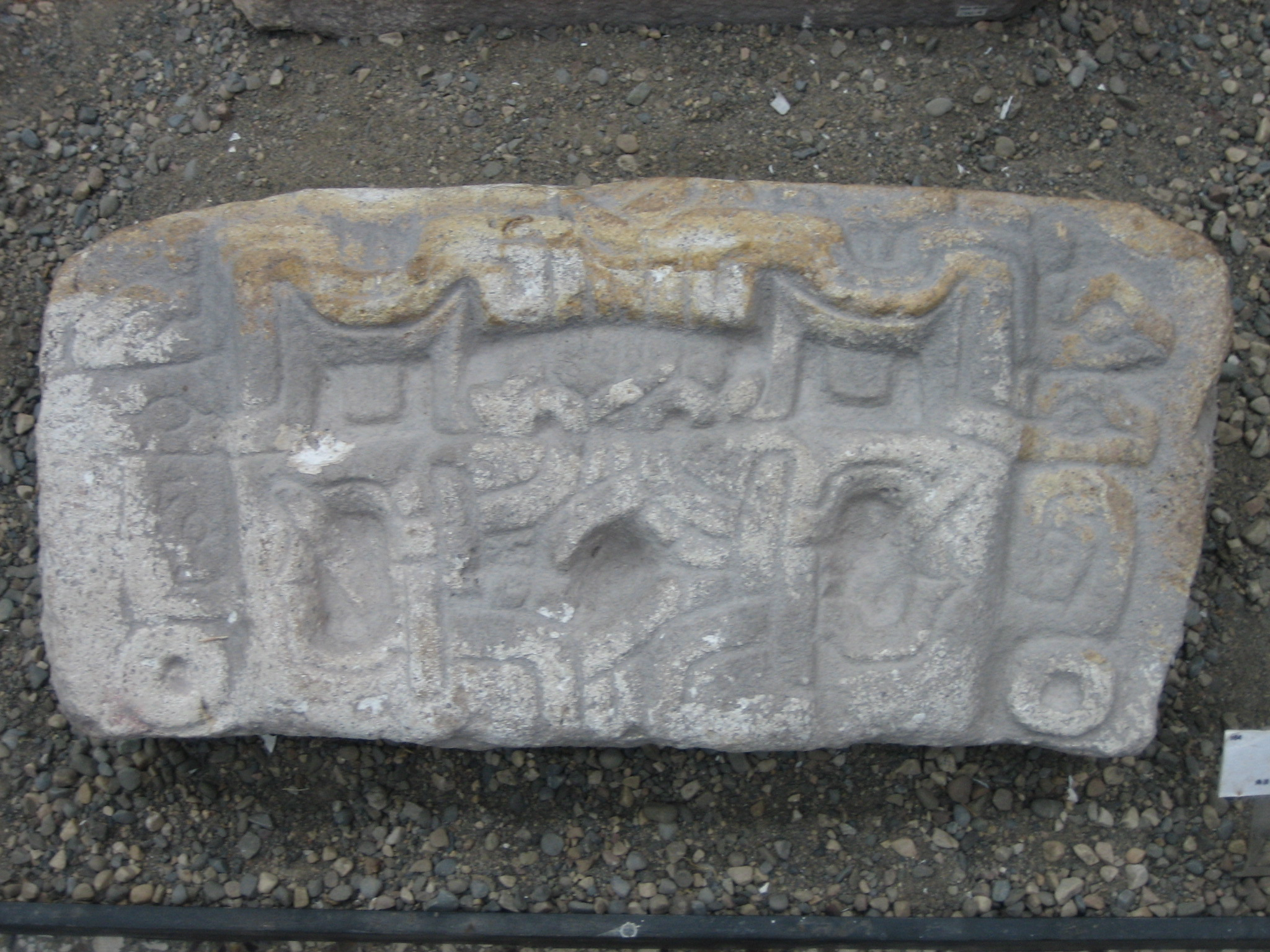 anthropomorphic relief found in Kuntur Wasi